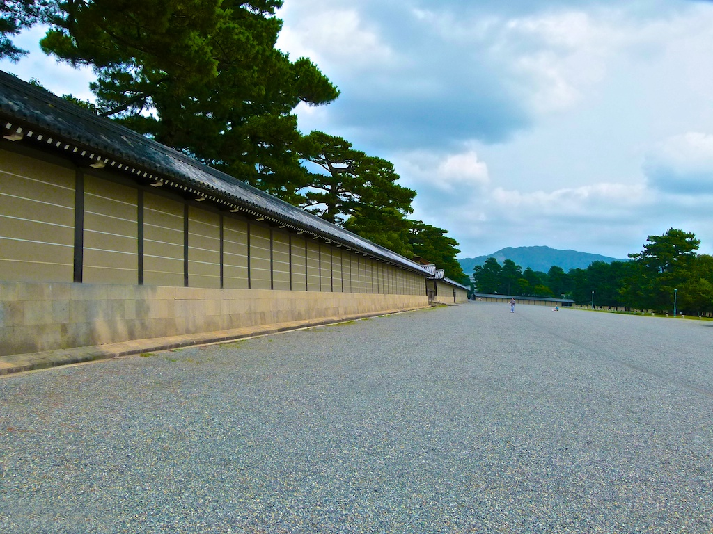 Kyoto Imperial Palace, Kyoto, The Earthen Wall (outside)